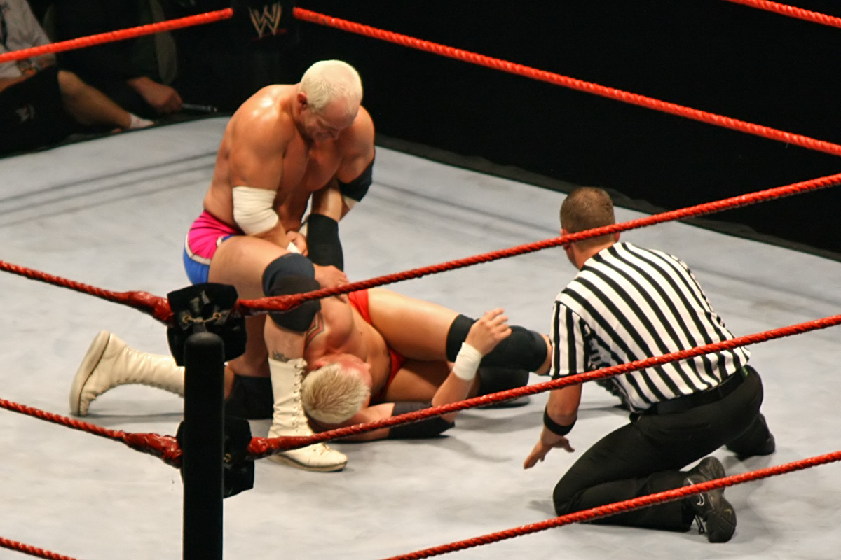 Bob 'Hardcore' Holly (Robert Howard) traps Mr Kennedy in an arm-bar hold. Taken during the WWE Raw - Survivor Series Tour, at Rod Laver Arena, Melbourne Park, Melbourne, Australia. Holly wrestled Mr Kennedy on the night; the match was won by Kennedy pinning Holly with a roll-up.